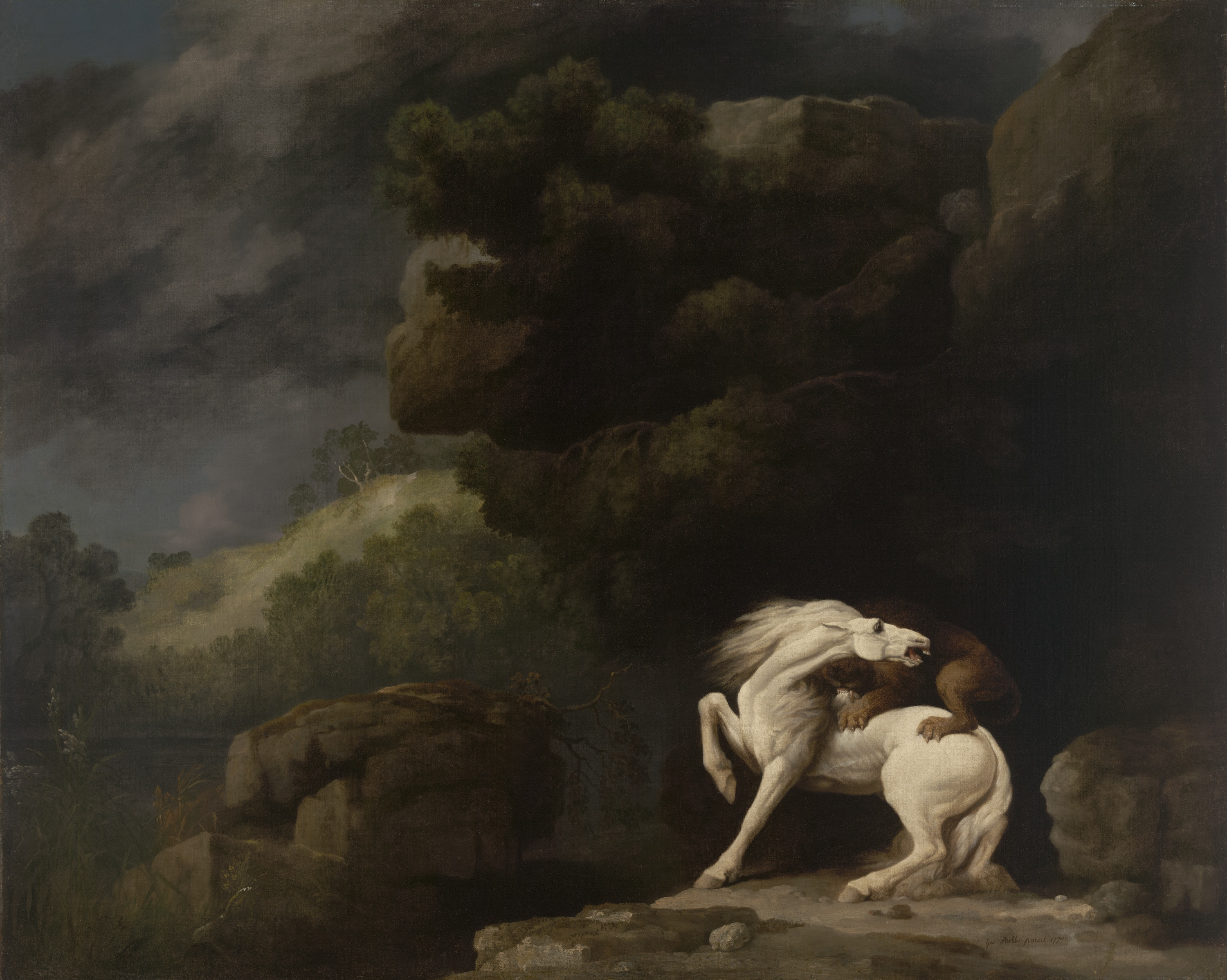 "A Lion Attacking a Horse," oil on canvas, by the English artist George Stubbs. 38 in. x 49 1/2in. Yale University Art Gallery, gift of the Yale University Art Gallery Associates. Courtesy of Yale University, New Haven, Conn.